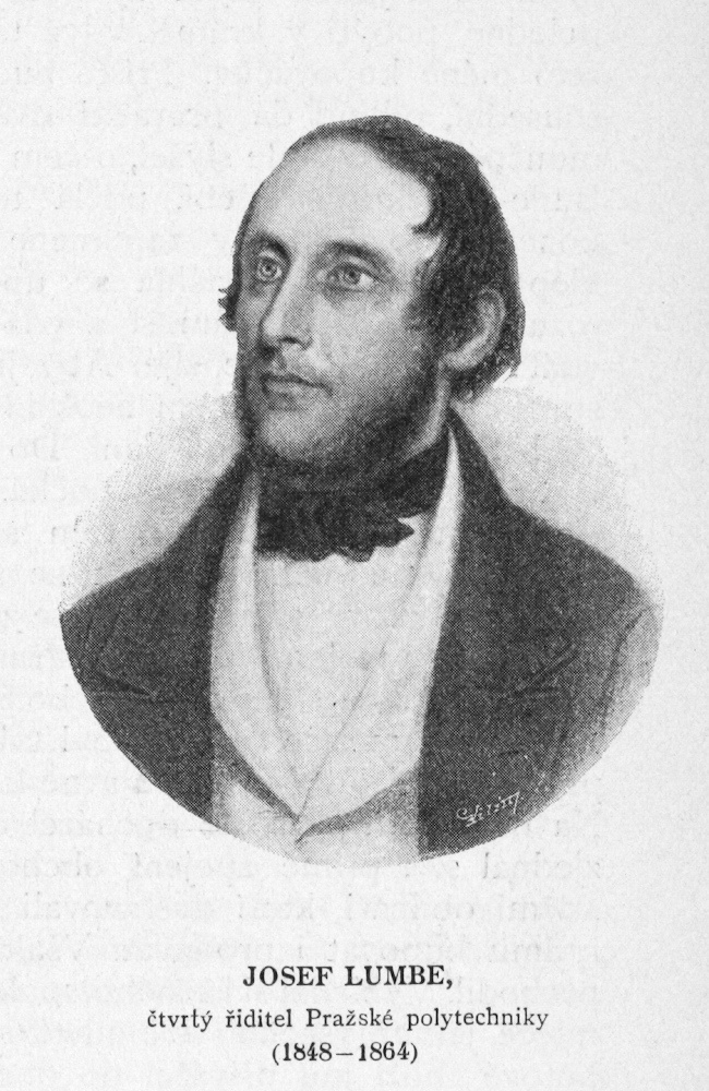 Josef Tadeáš Lumbe (1801–1875) was a Czech agronom. Česky: Josef Tadeáš Lumbe (1801–1875) byl český profesor přírodních věd